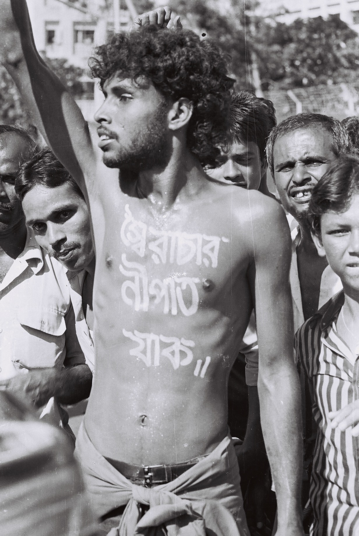 Noor Hossain (second from left) at 10 November 1987 protest for democracy in Dhaka, before he was shot to death by Bangladesh Police.